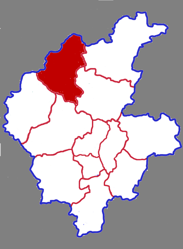 Location of Mengyin county in Linyi City, China